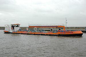 Dutch Tankership "Leo Determan"